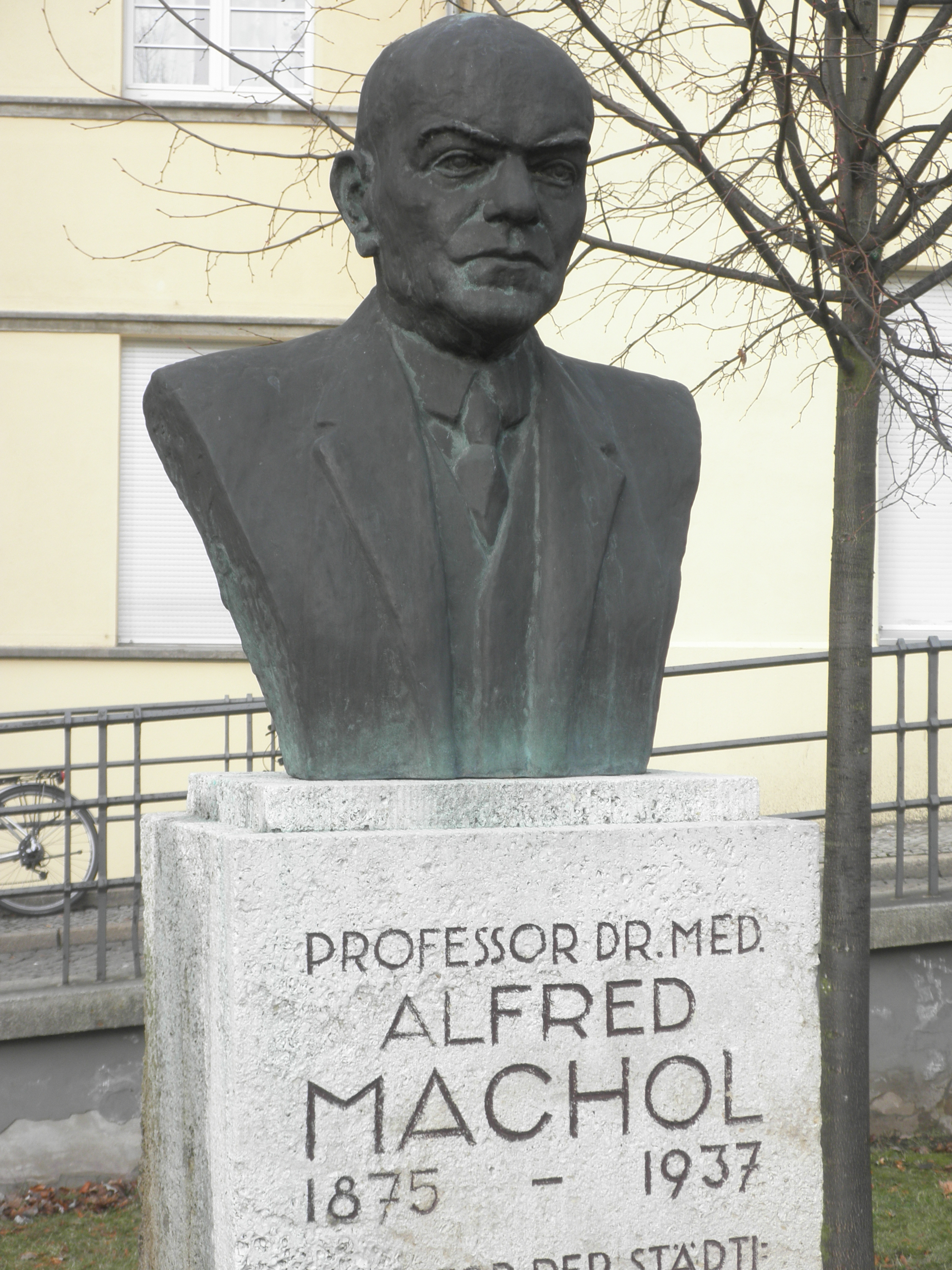 Sculpture of Alfred Machol from Hans Walther in Erfurt